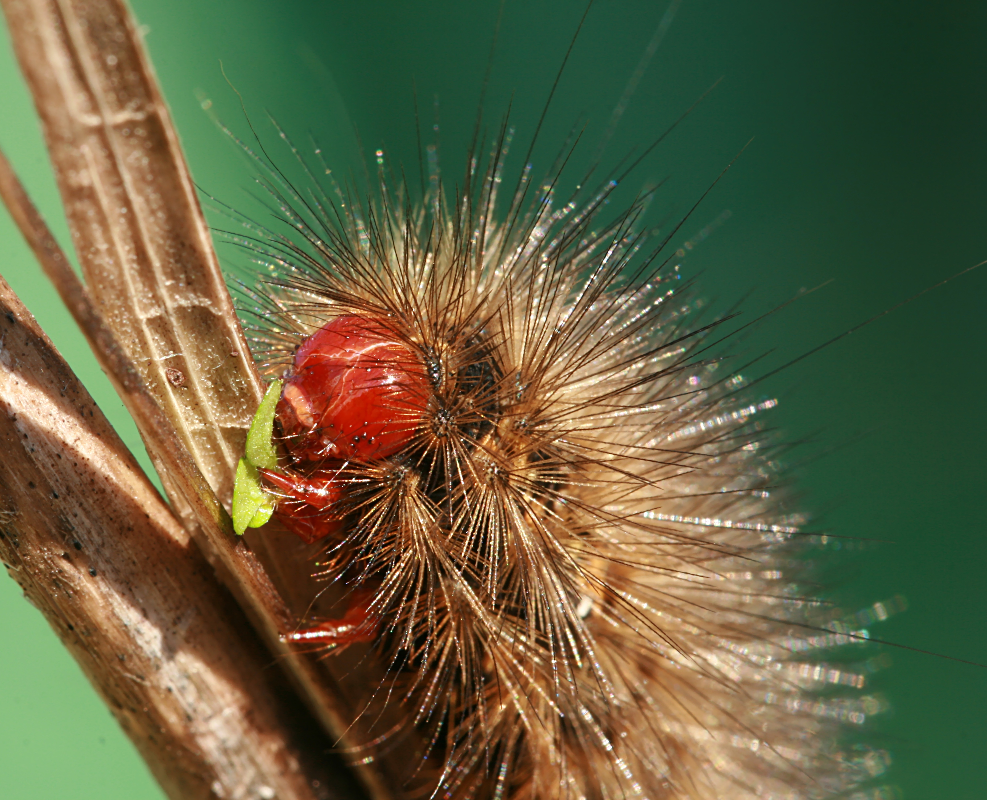 Spilosoma glatignyi caterpillar in suburban Sydney.